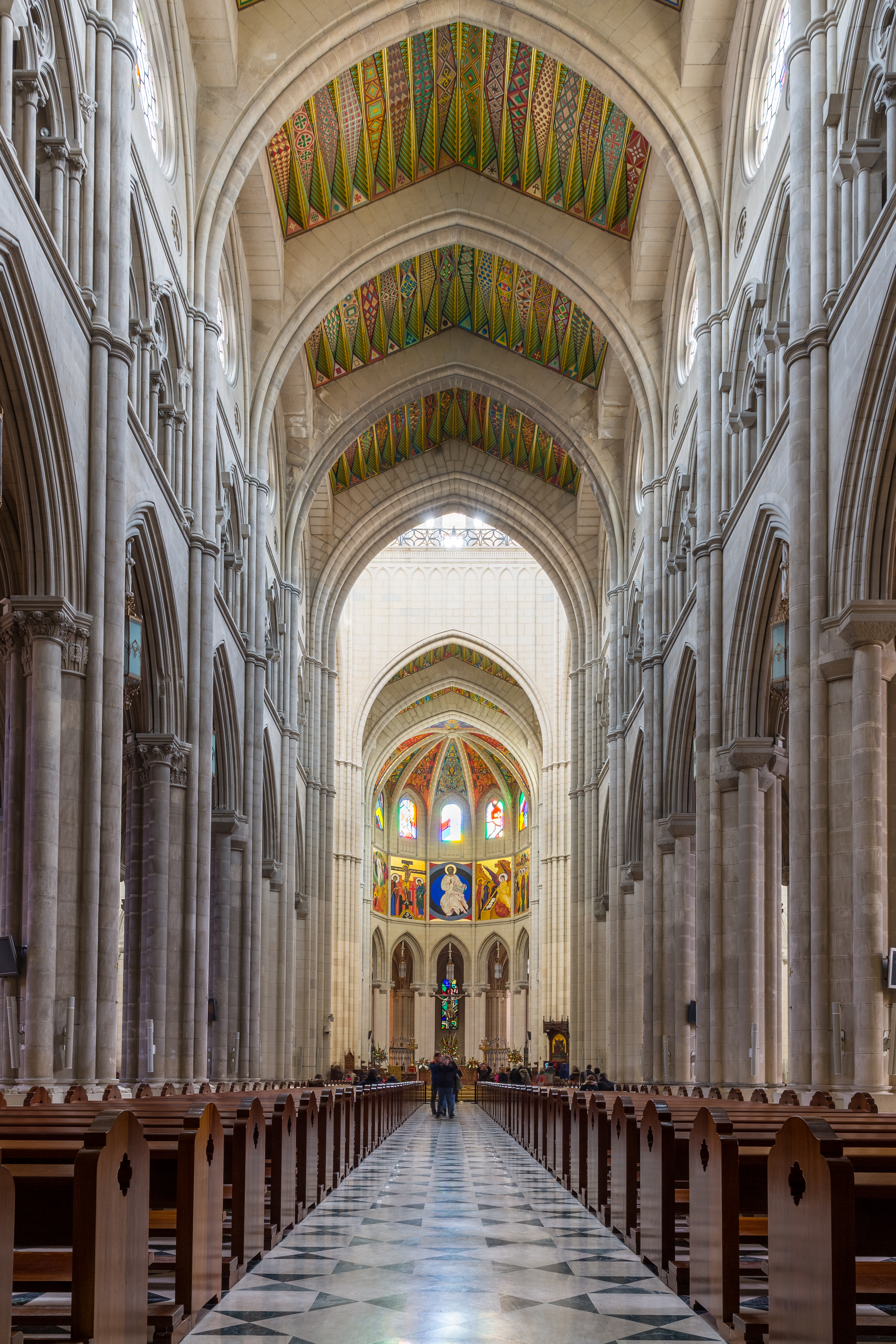 Almudena Cathedral, Madrid, Spain